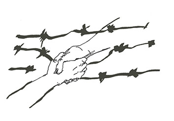 People who have a well-founded fear of persecution are entitled to refugee status.